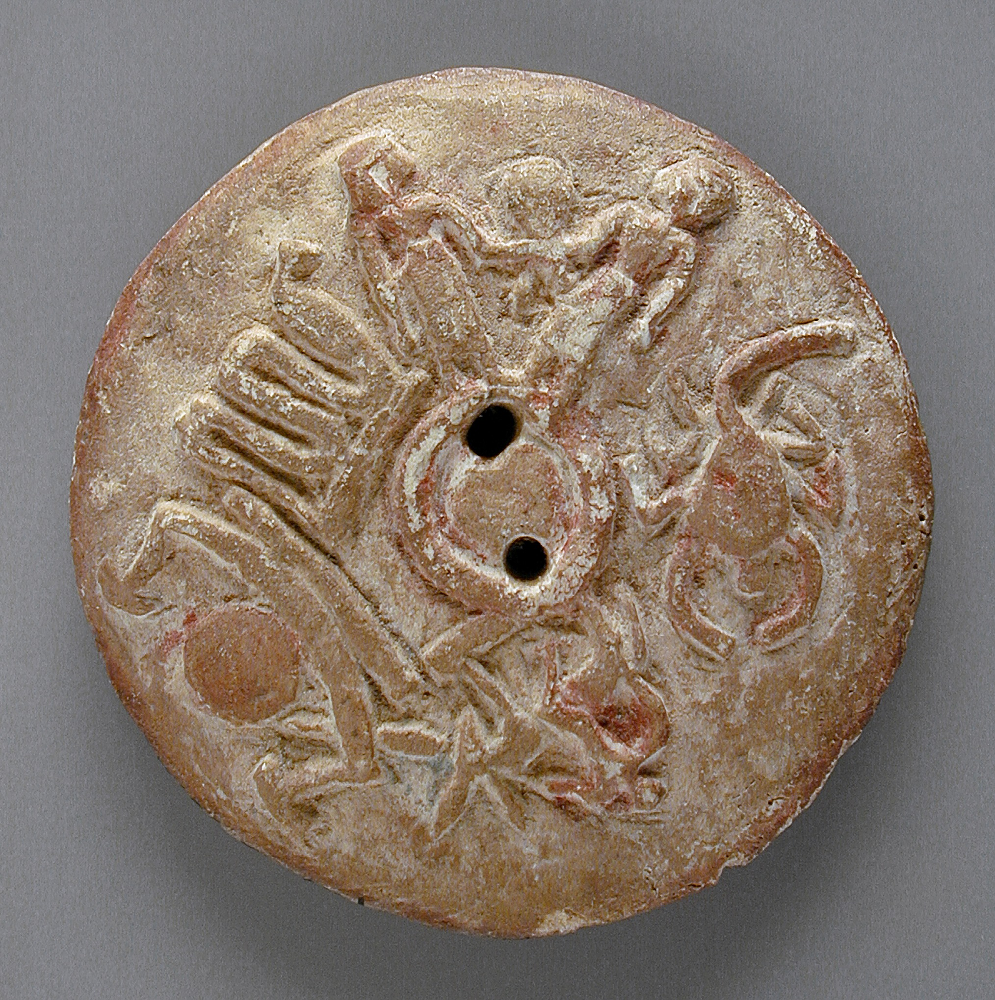 Egypt, 30th Dynasty - Ptolemaic Period (332 - 31 BCE) Sculpture Terracotta Gift of Jerome F. Snyder (M.80.202.226) Egyptian Art